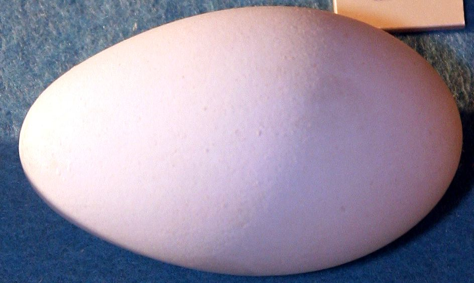 Location taken: Delaware Museum of Natural History, Wilmington, Delaware.. Names: Morus bassanus (Linnaeus, 1758), Alcatraz, Alcatraz Atlántico, Alcatraz Común, Ar morskoul boutin, Asau, Atlantic Gannet, Ausa, Basani i çmendur, Bass goose, Basstölpel, Basstölpel-bassana, Baßtölpel, Bluna, Bobo Norte, Bobo norteÃ±o, Bobo norteño, Caraid-nan-Gaidheal, common gannet, Eun ban an sgadain, Fou de Bassan, Gainéad, Gannet, Gannet -, ganso patola, Ganso patola comum, Ganso-patola, Ganso-patola-comum, Gant, gluptak, gran fou, Grásúla, Guga, Gŵydd lygadlan, Gŵydd y weilgi, Gwylan dydd, Gwylanwydd, Głuptak, głuptak (zwyczajny), Głuptak zwyczajny, Havssula, Havsule, Hugan, Hvítsúla, Jan van Gent, Jan-van-gent, Kofrie, Mascarell, Mascarell comú, Mascato, Mascato común, Mazcatu, Moris bassana, Morskoul, Morskoul boutin, Morus bassanus, Morus bassanus bassanus, Mulfran lwyd, Mulfran wen, navadni strmoglavec, Norda sulo, North Atlantic Gannet, Northern Gannet, Northern Gannett, Ó biển phương Bắc, Oyðisúla, Sether, Sethor, shirokatsuodori, Šiaurinis padūkėlis, solan goose, stmoglavec, strm